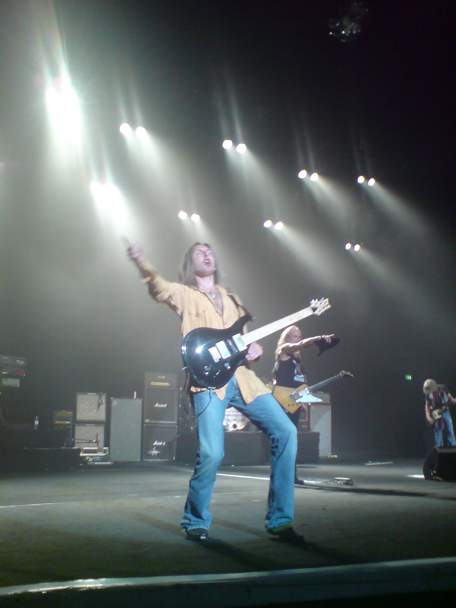 Taken by myself at a Lynyrd Skynrd Performance at the o2 Brixton academy 2009-05-31.